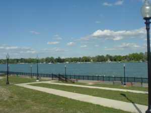 Adair Edens, personal